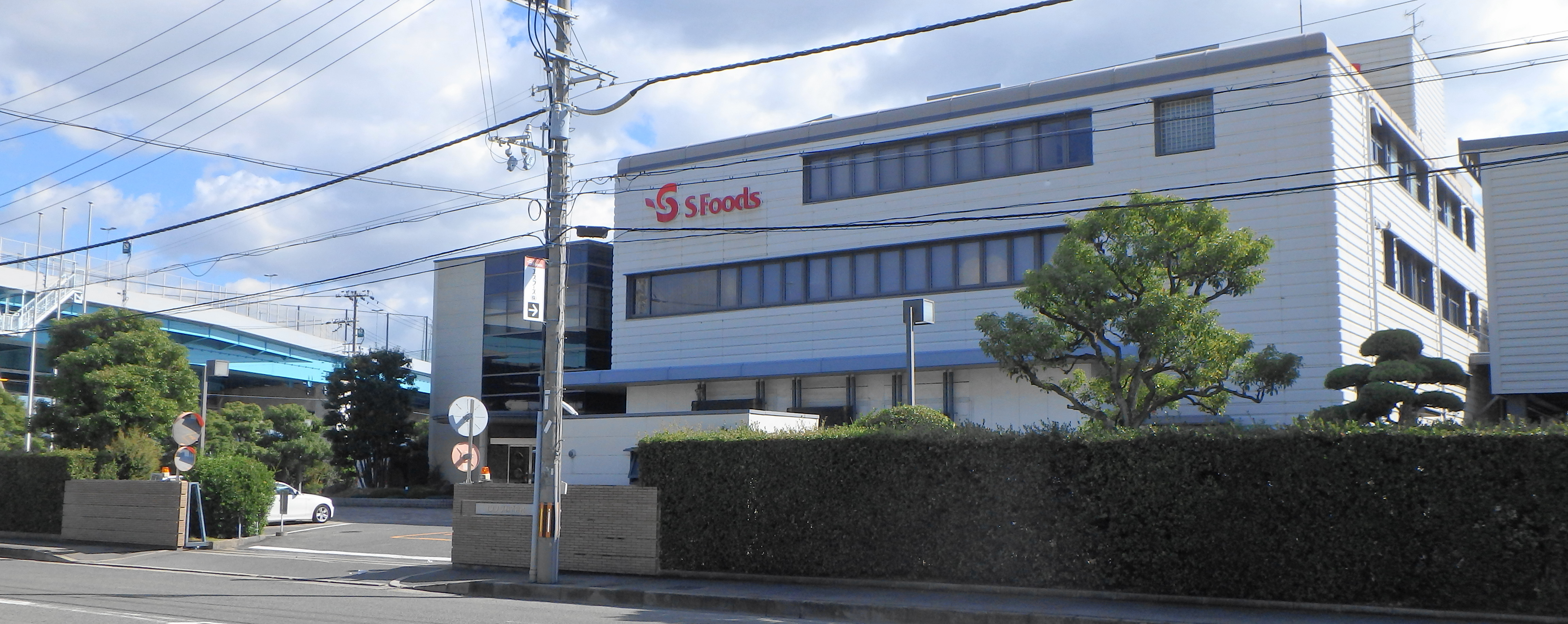 Headquarters of S Foods Inc.,Hyogo prefecture,Japan